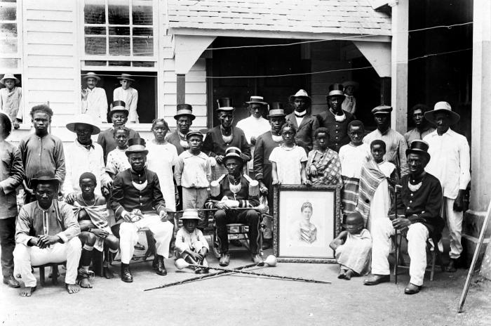 Group portrait of Granman Amakti with his captains and a portrait of Queen Wilhelmina